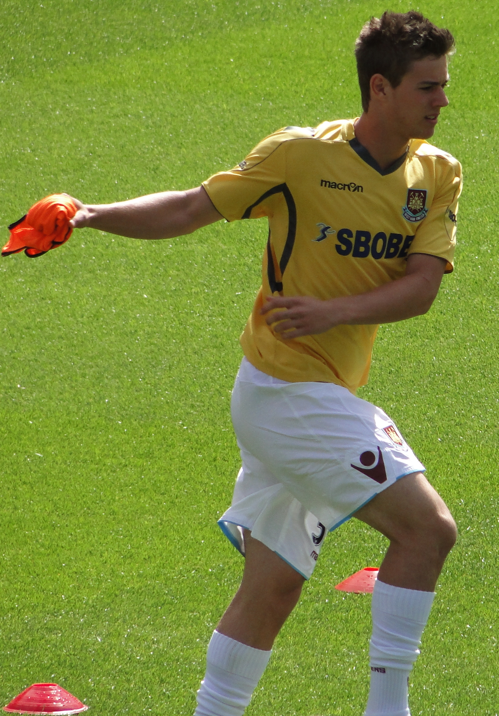 West Ham United player Dylan Tombides warming-up before their Premier League game against Sunderland at The Boleyn Ground, May 2011.